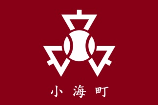 Flag of Koumi Nagano